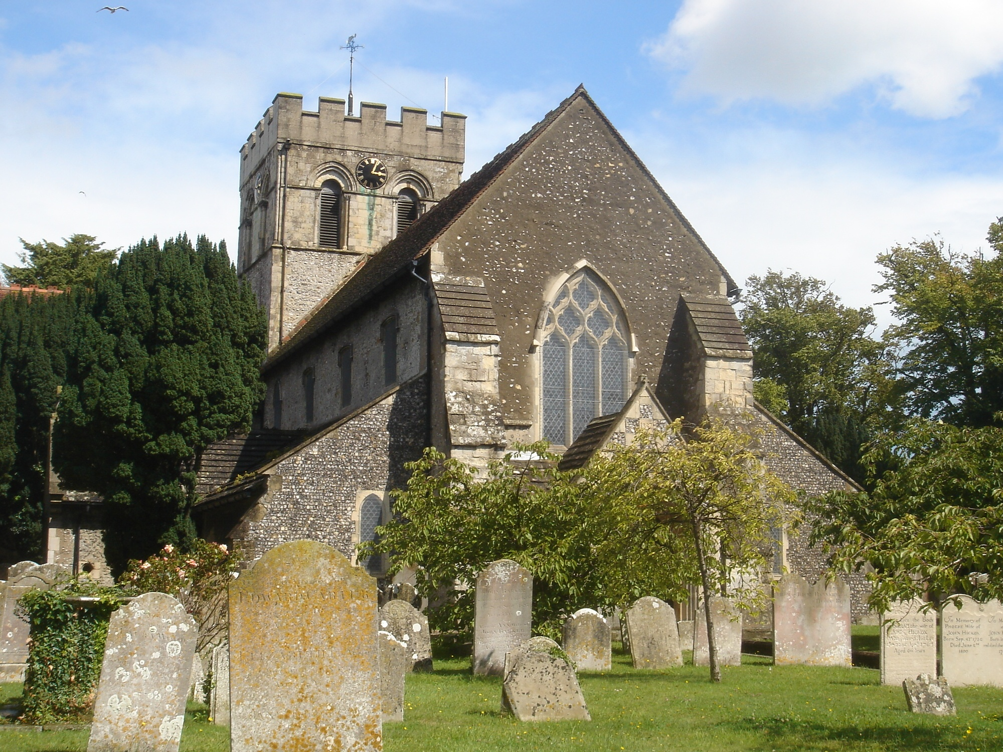 St Mary's Church, Broadwater Road, Broadwater, Worthing, West Sussex, England. The parish church of Broadwater; Worthing formed the southern part of its parish in its early days as a fishing village, and its first two churches were chapels of ease to St Mary's. By the mid-19th century, Worthing had grown so rapidly that it absorbed Broadwater. Listed at Grade I (formerly Grade B) by English Heritage (IoE Code 302233)